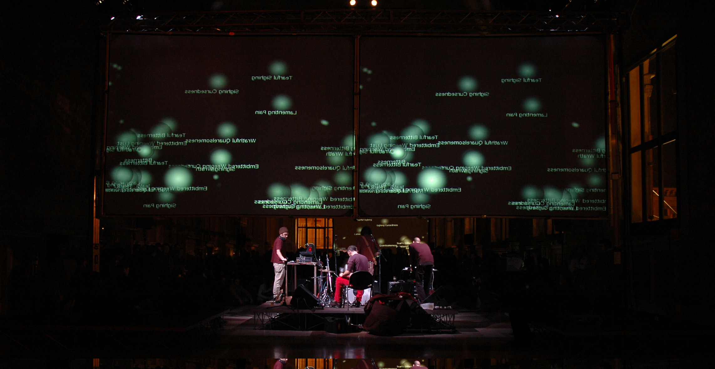 Photo of "The Single Unit of Beauty", Live media by Sinistri, Dino Bramanti, Andy Simionato e Karen Ann Donnachie (Thisisamagazine) , taken at Netmage 06, 2006 - Palazzo Re Enzo, Bologna. Photo: Moira Ricci, courtesy Xing